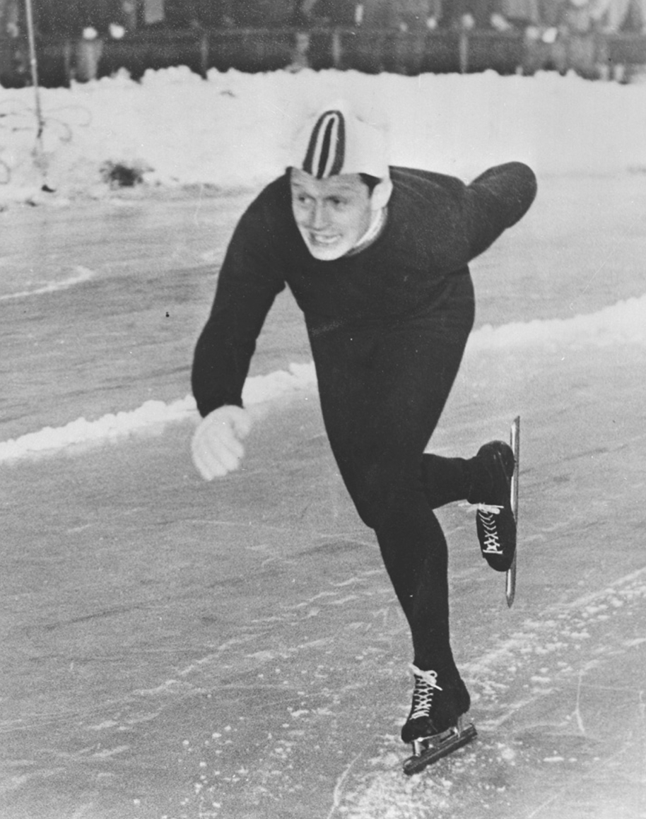 Hjalmar "Hjallis" Johan Andersen (born 12 March 1923) is a former speed skater from Norway who won three gold medals at the 1952 Winter Olympic Games of Oslo, Norway. He was the only triple gold medalist at the 1952 Winter Olympics, and as such, became the most successful athlete there